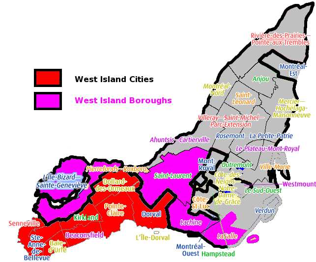 Map of the Montreal's West Island